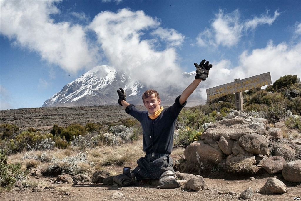 Sasha Shulchev Kilimanjaro.